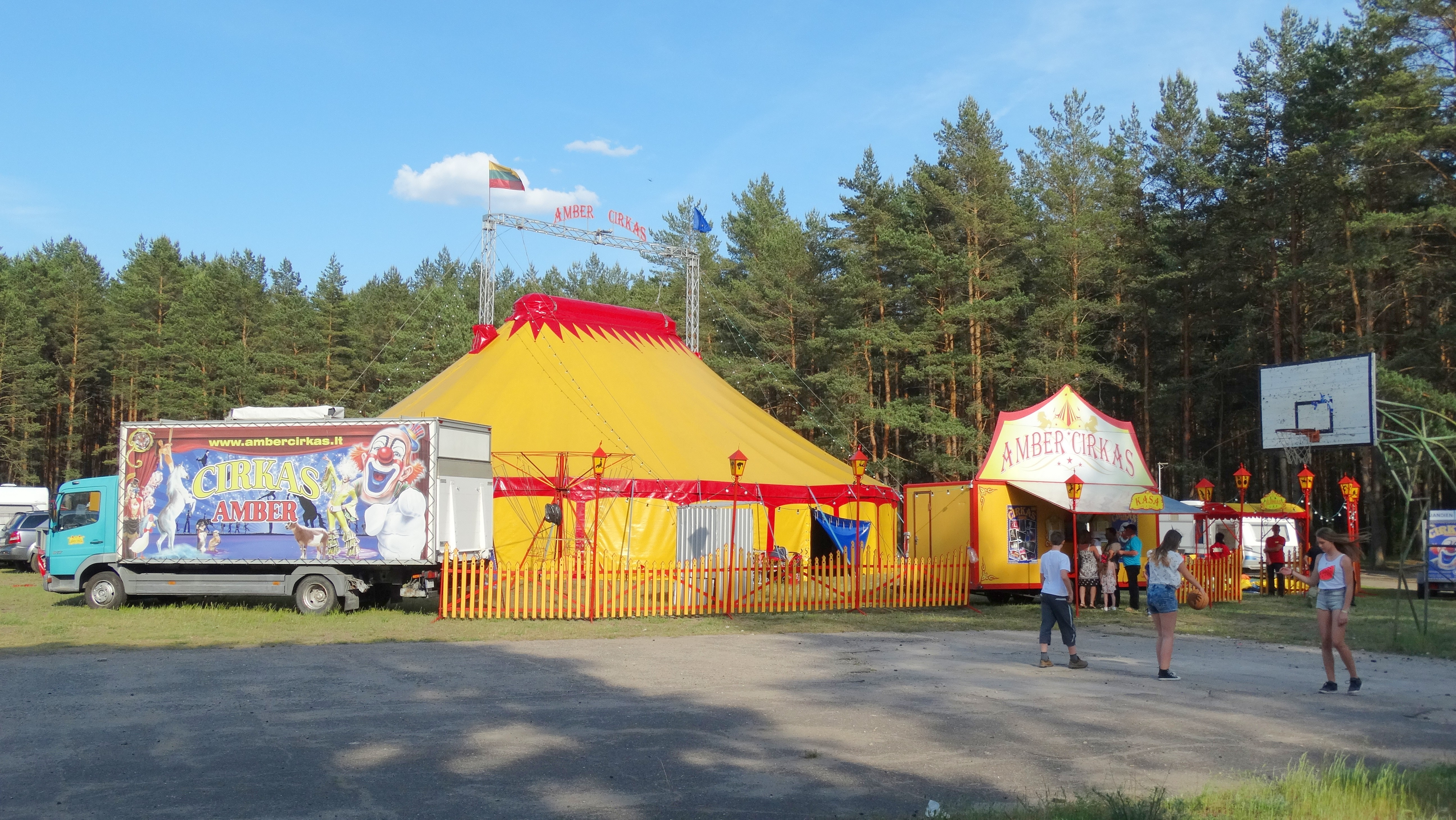 Amber cirkas, Nemenčinė, Vilnius District, Lithuania